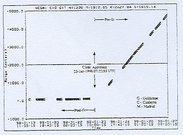 From: P.G. Antreasian, J.R. Guinn, AIAA 98-4287 Copyright @ 1998, American Institute of Aeronautics and Astronautics, Inc.